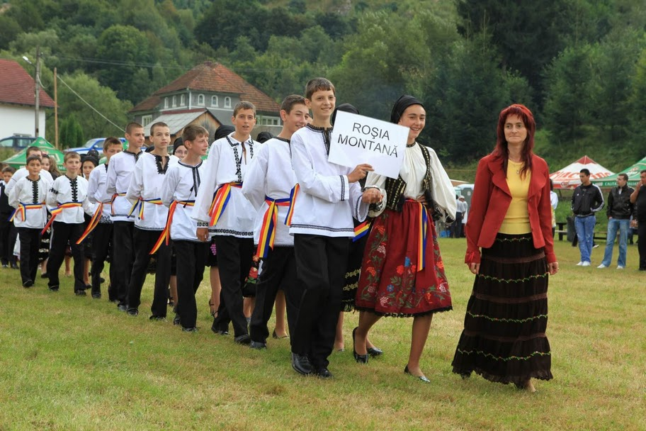 Parada de costume populare